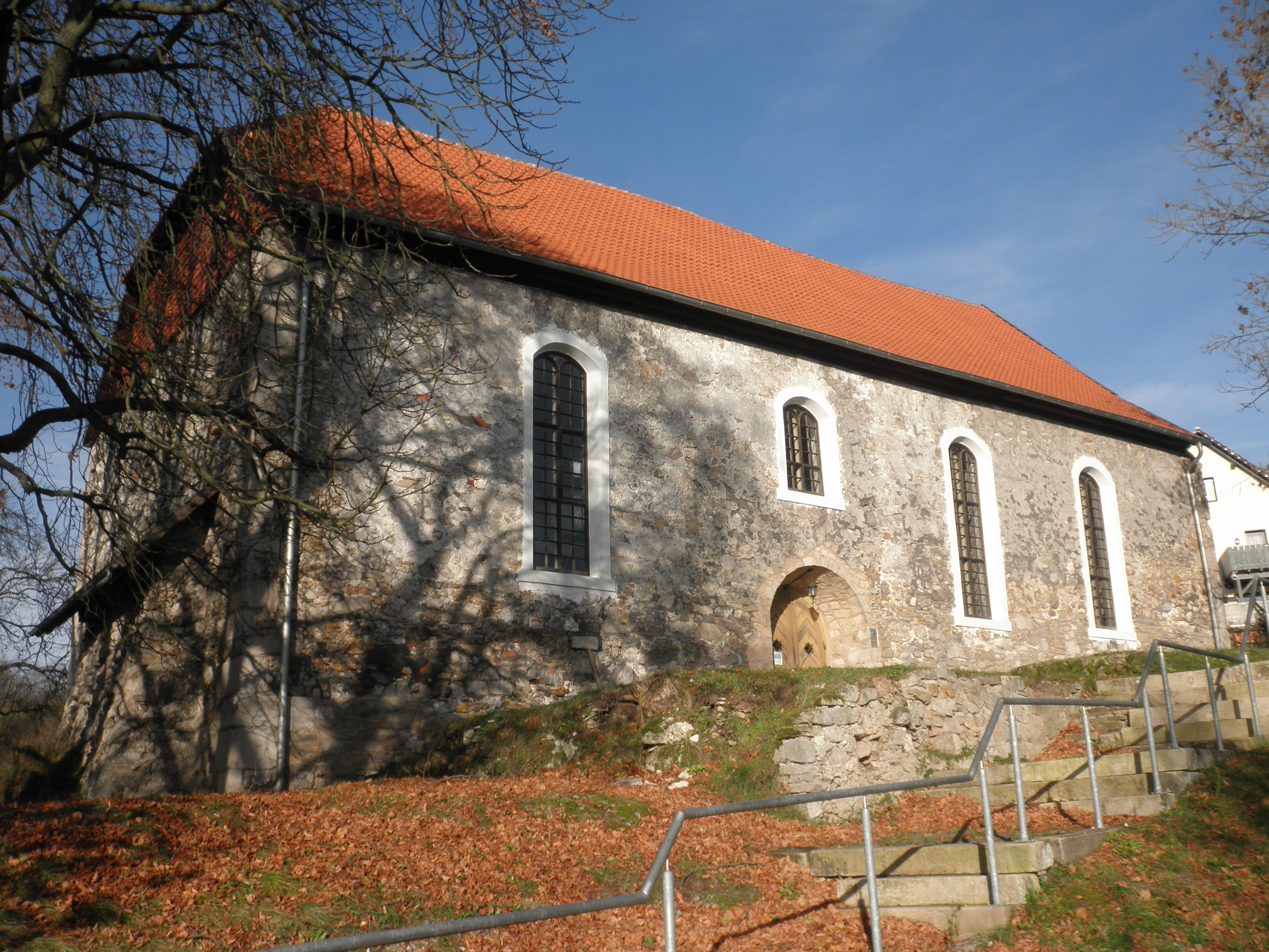 Church in Klettenberg (Hohenstein) in Thuringia